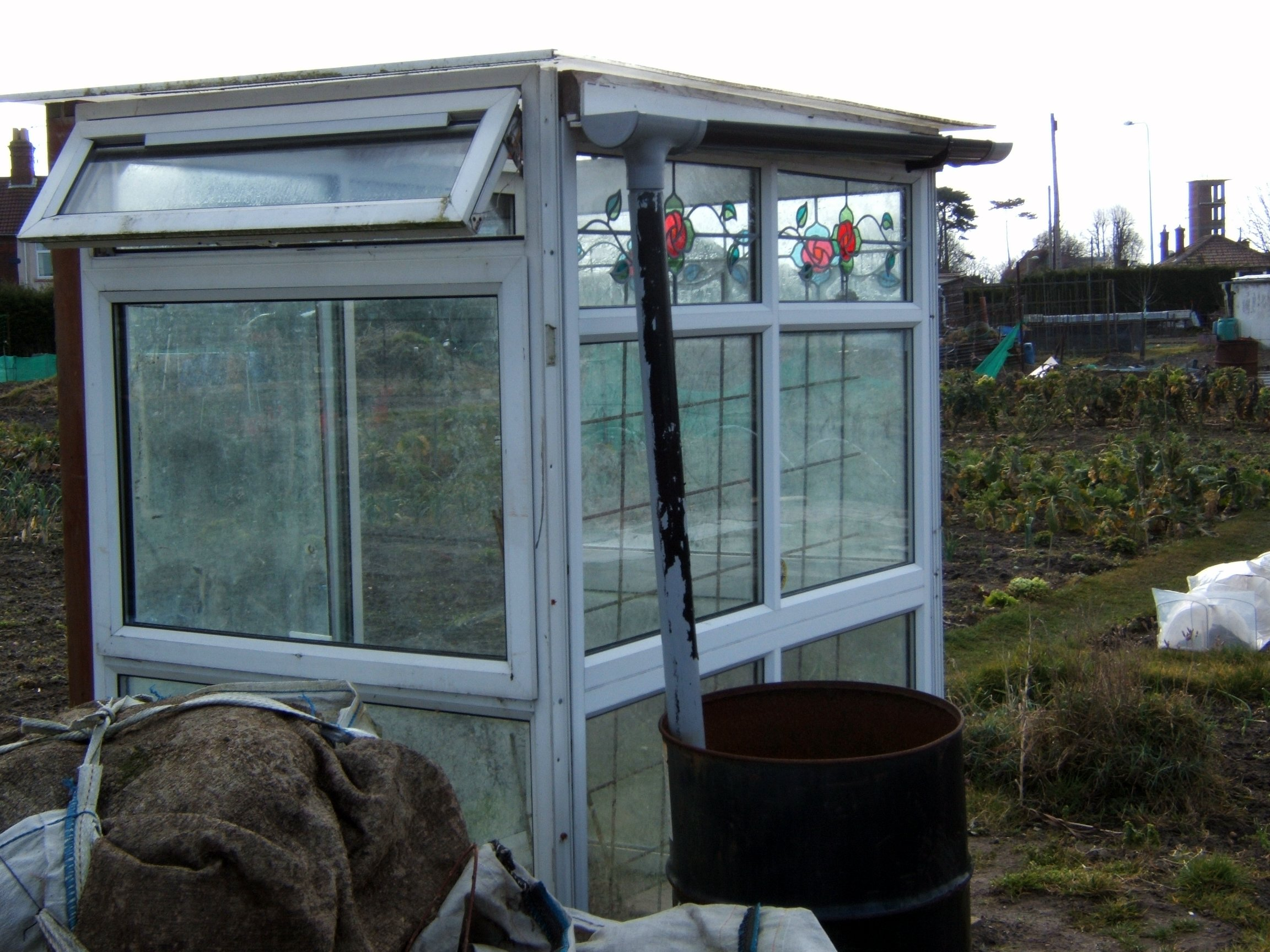 A small self made greenhouse at Fir Lane, Lowestoft, Suffolk. "I love the way any bit of scrap is recycled and turned into something useful in the world of the allotment."